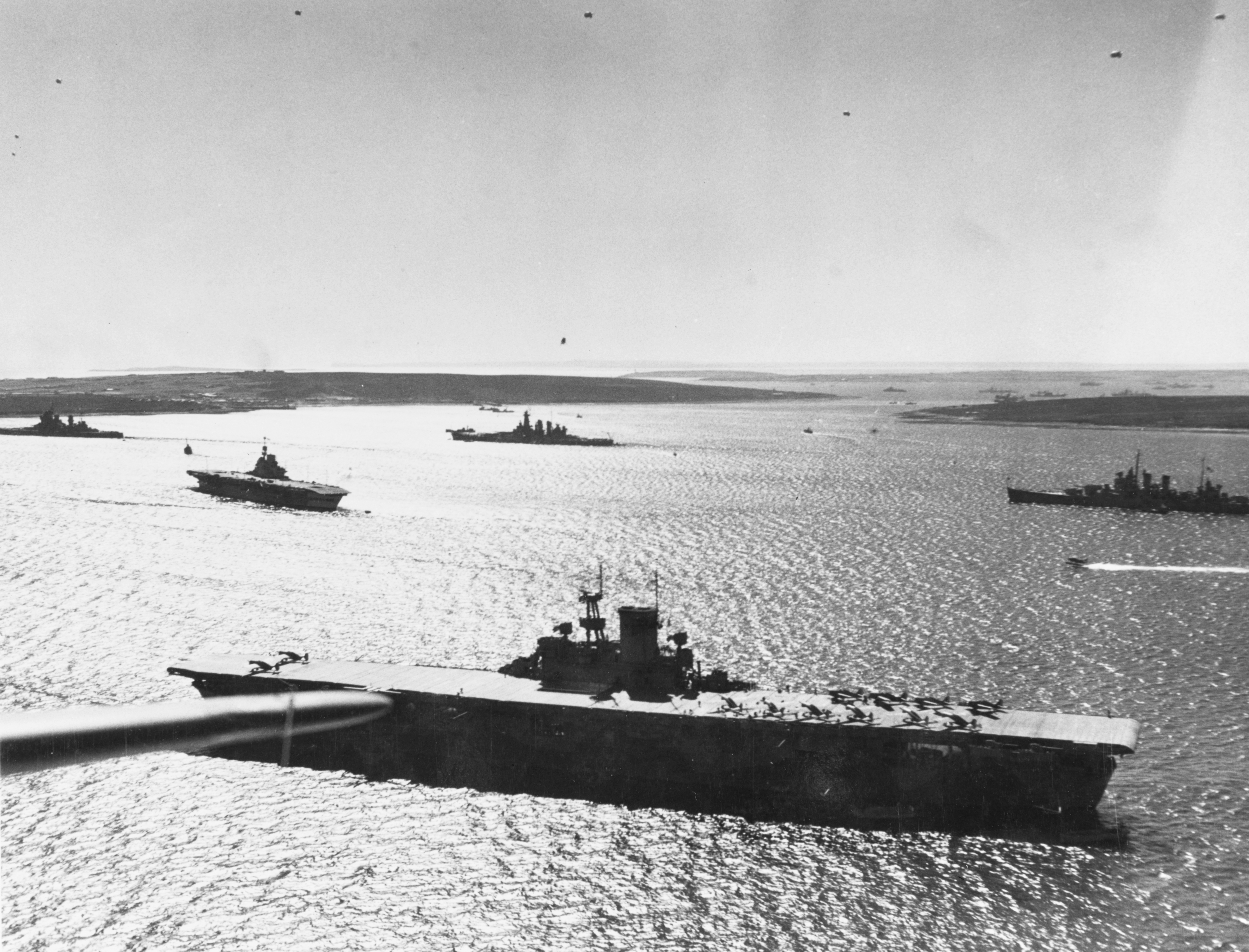 The U.S. Navy aircraft carrier USS Wasp (CV-7) at Scapa Flow, Scotland (UK), in April 1942. The ships in the background are (r-l): the heavy cruiser USS Wichita (CA-45), the battleship USS Washington (BB-56), the aircraft carrier HMS Victorious (R38), and (probably) a King George V-class battleship.